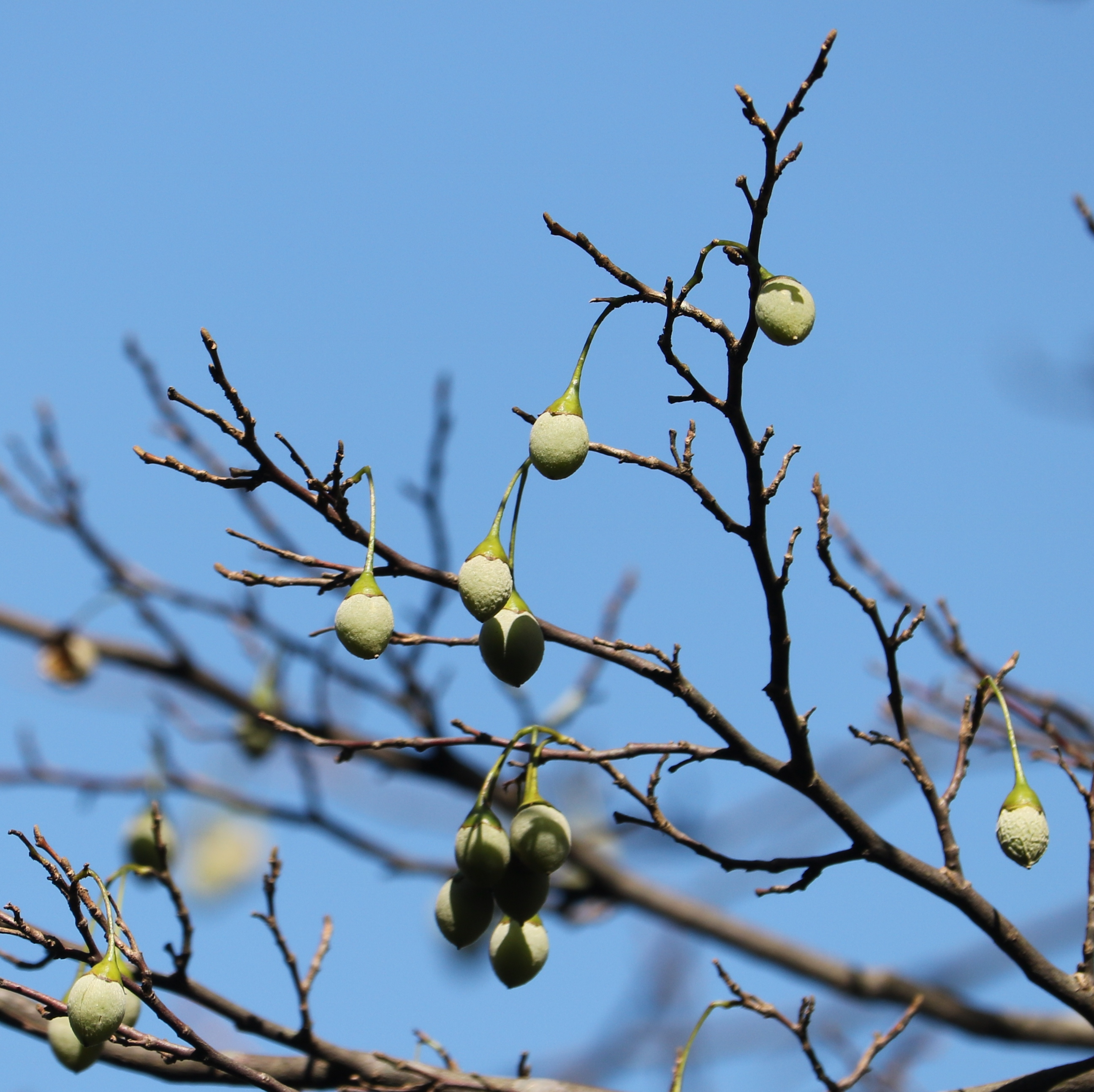 Styrax japonicus with fruits in Mount Oike (Suzuka Mountains), Higoshiomi, Shiga preecture, Japan.